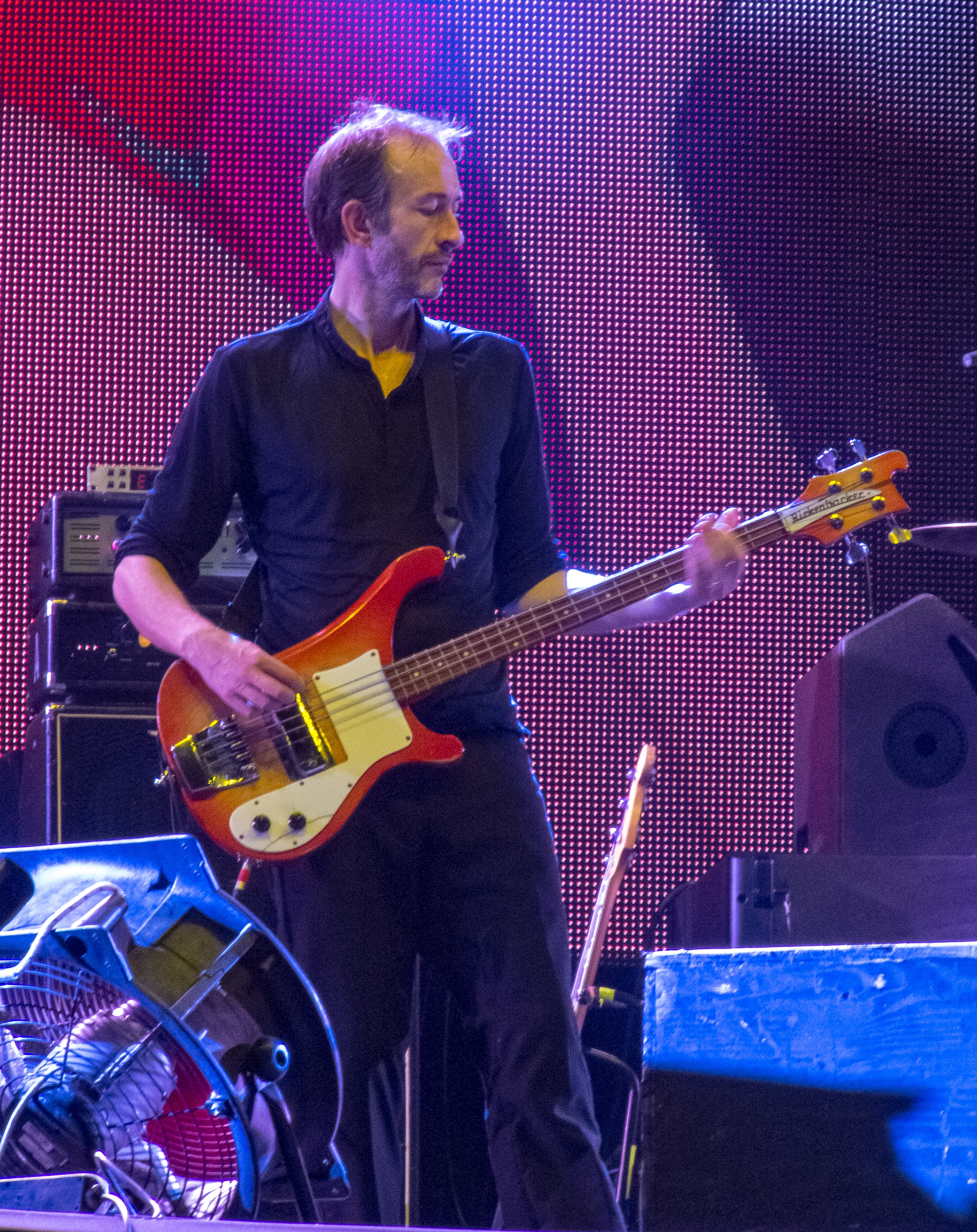 Mat Osman performing with Suede at Lokerse Festival in 2012.